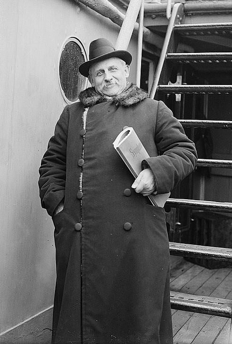 French conductor Eugène d'Harcourt (1859-1918) as arriving to the United States for concert tour in 1916.